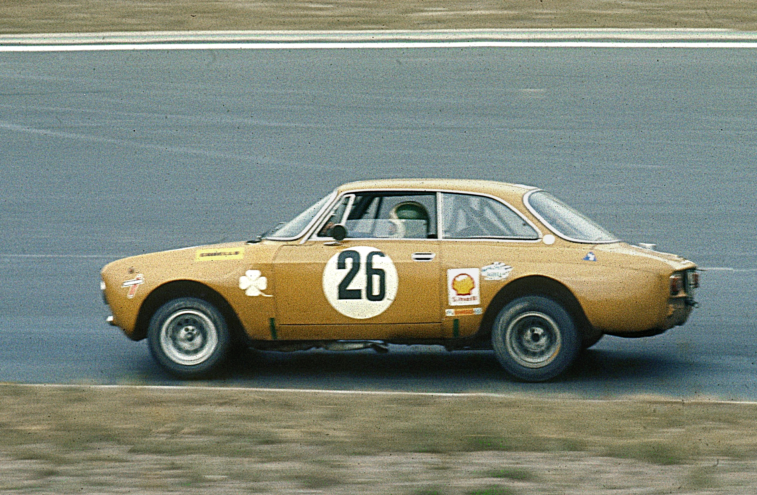 Carlo Facetti in the Alfa Romeo GTAm at the 6 Hours of Nürburgring, Nordkurve. 4th place with Spartaco Dini, 38 laps, 143.7 km / h